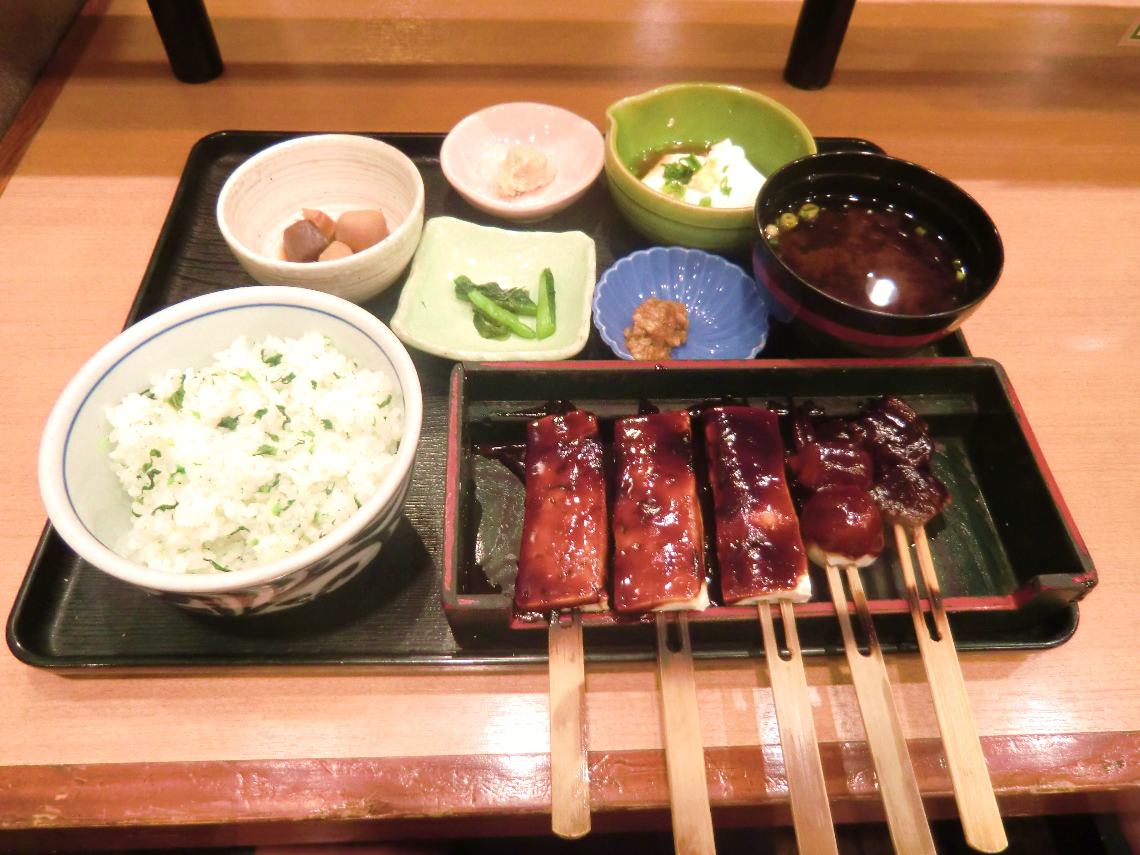 Nameshi (菜飯)